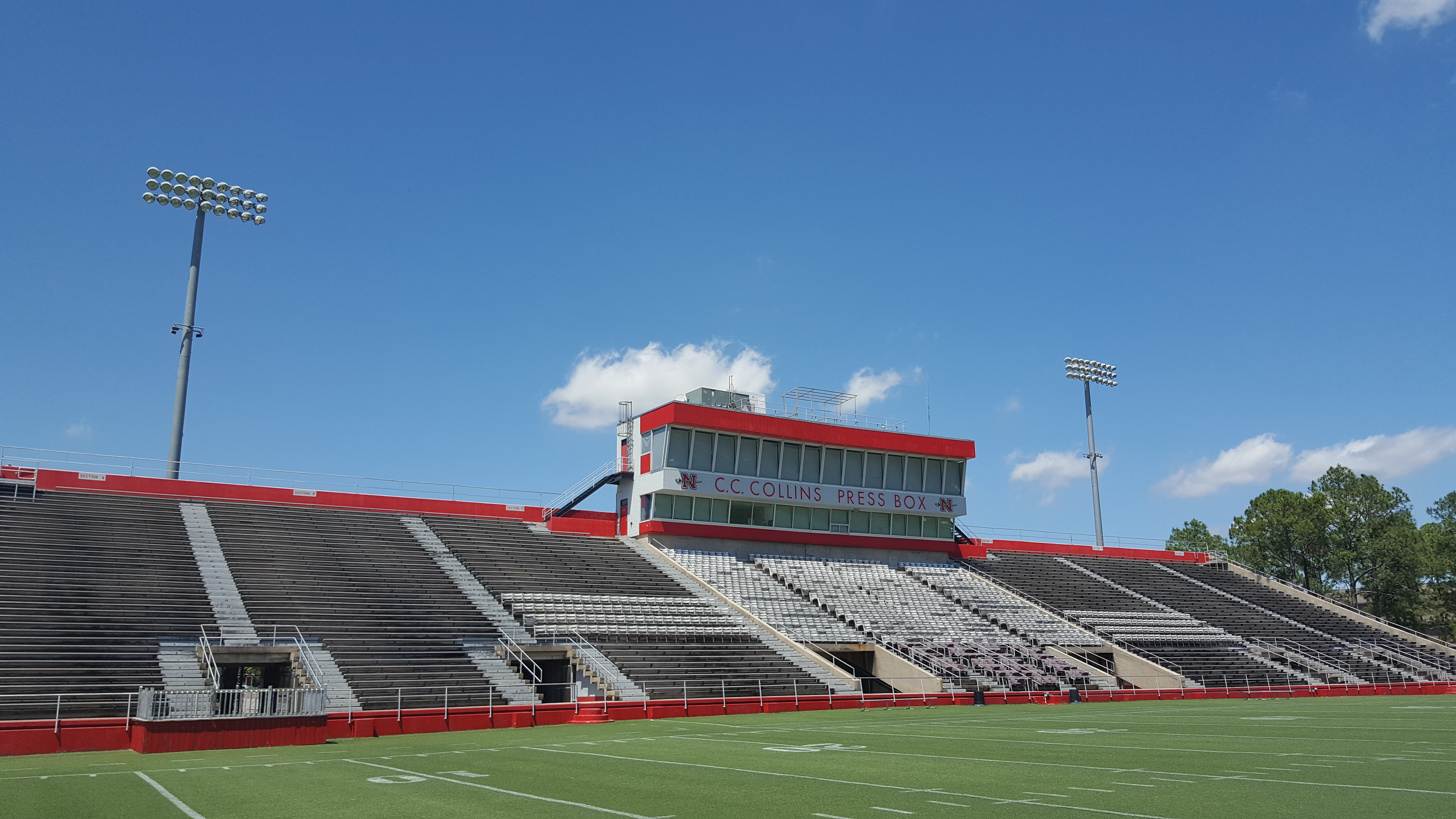 Manning Field at John L. Guidry Stadium (Thibodaux, Louisiana)